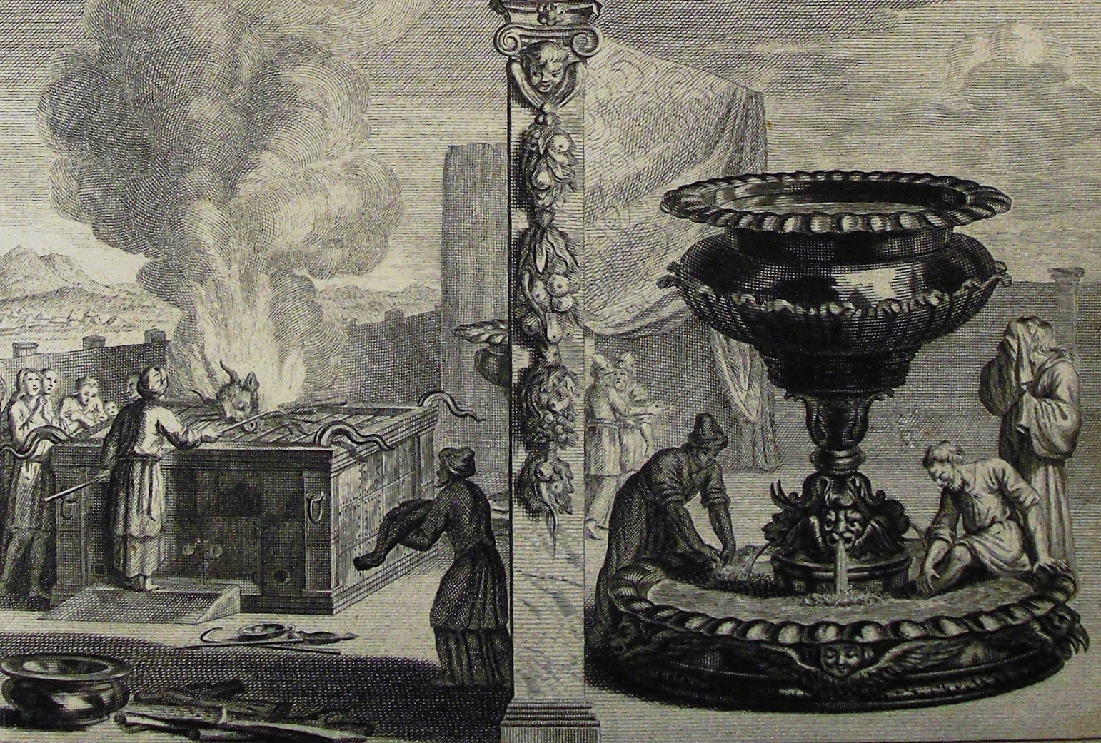 A print from the Phillip Medhurst Collection of Bible illustrations in the possession of Revd. Philip De Vere at St. George’s Court, Kidderminster, England.